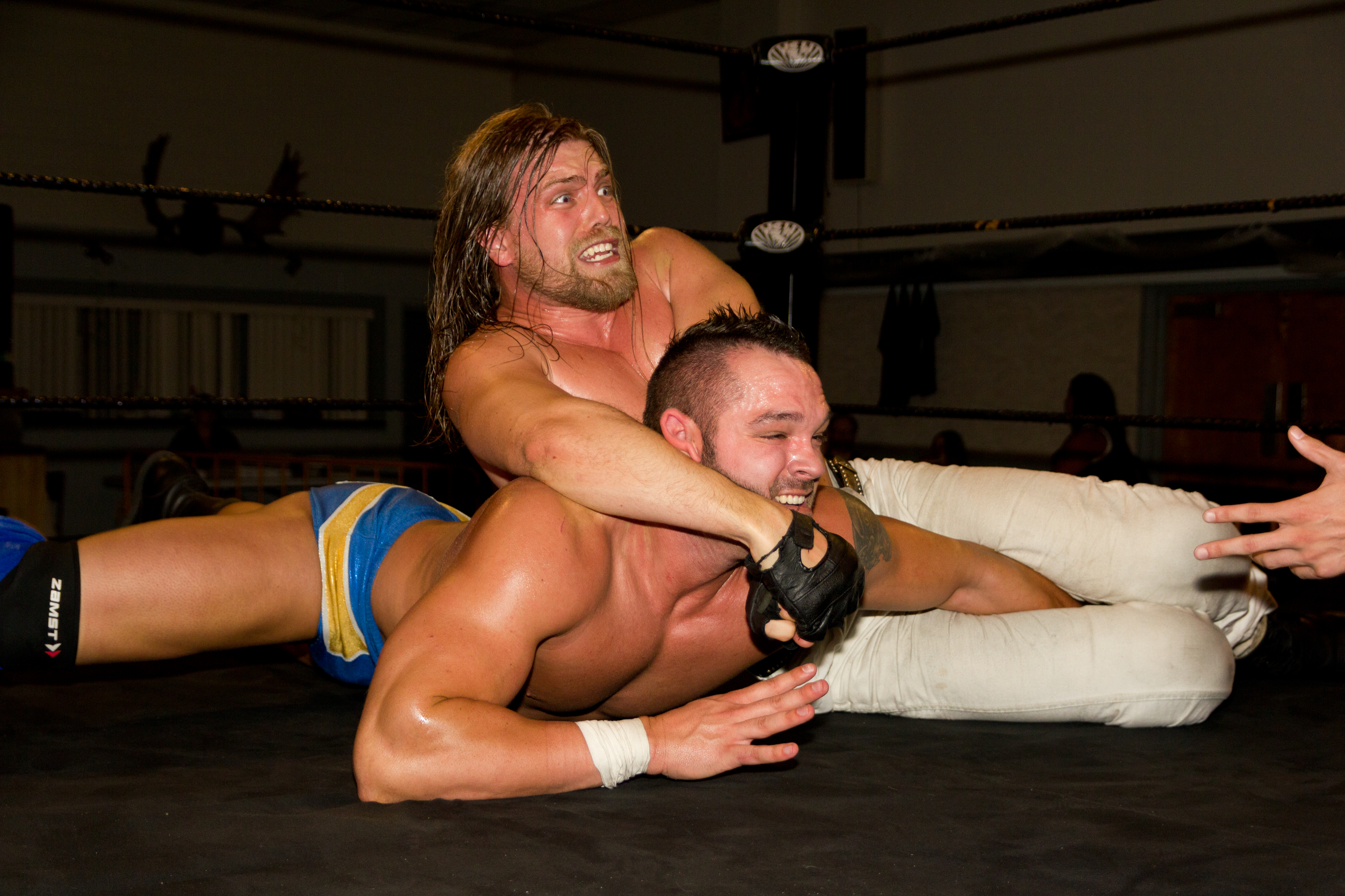 Independent wrestler Cody Deaner (with beard) applying a crossface wrestling hold on Shawn Spears at TCW's All Out War show